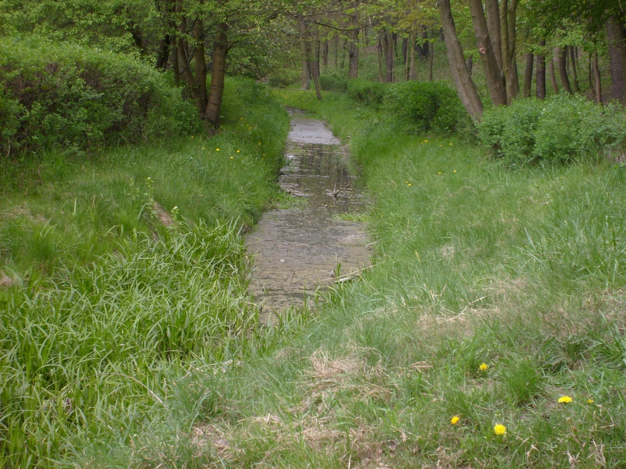 Ravine in Fazaniec, Bytom.